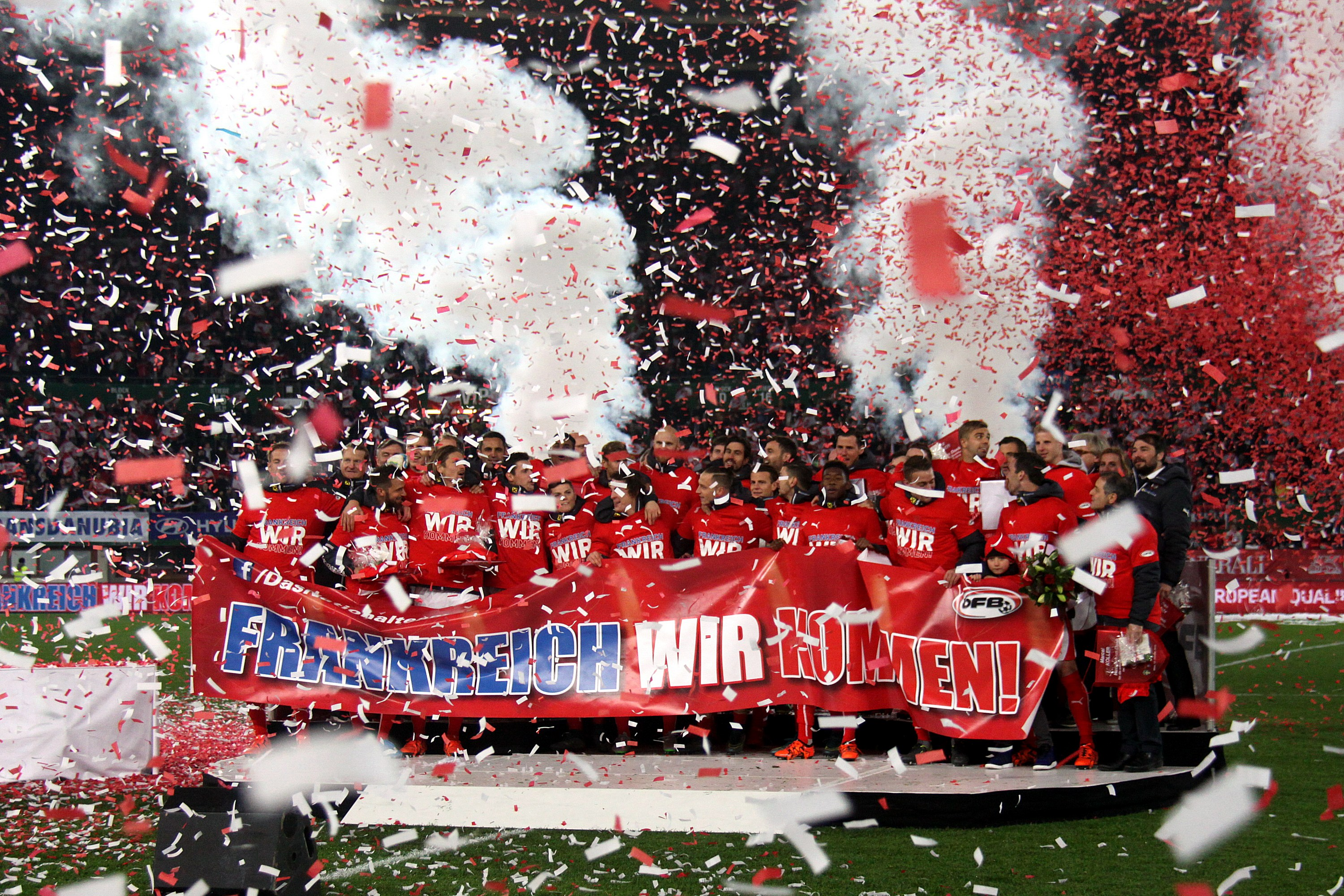 UEFA Euro 2016 qualifying, Group G – Austria (red shirts) vs. Liechtenstein (blue shirts) 3–0 (1–0) on 2015-10-12 in Ernst-Happel-Stadion, Vienna – The photo shows the honoring of the entire team for the successful qualification for the European Championship.